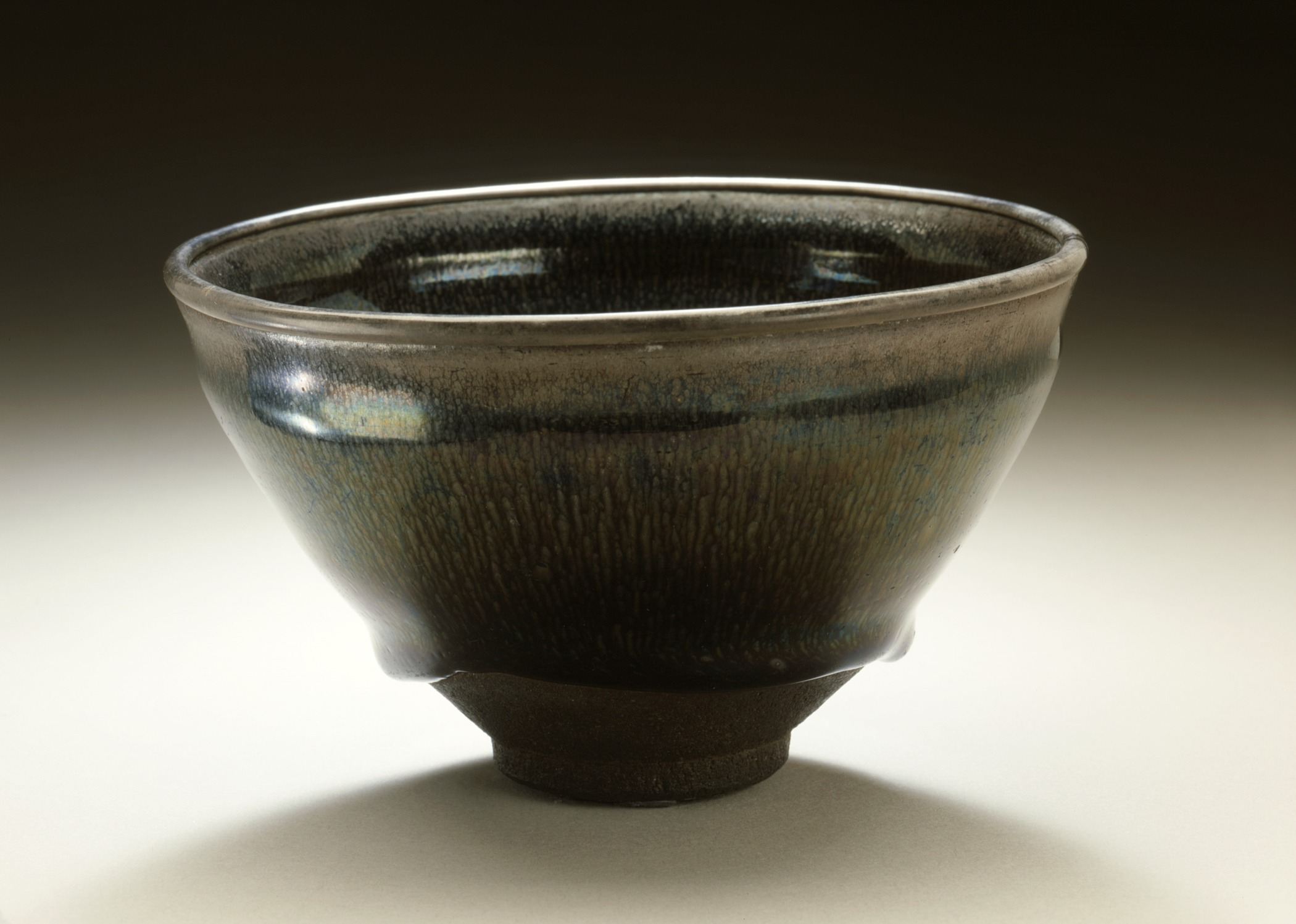 China, Fujian Province, Jianyang County, Southern Song dynasty, 1127-1279 Furnishings; Serviceware Jian ware, wheel-thrown stoneware with mottled black glaze Mr. and Mrs. Allan C. Balch Collection (M.51.2.1) Chinese Art